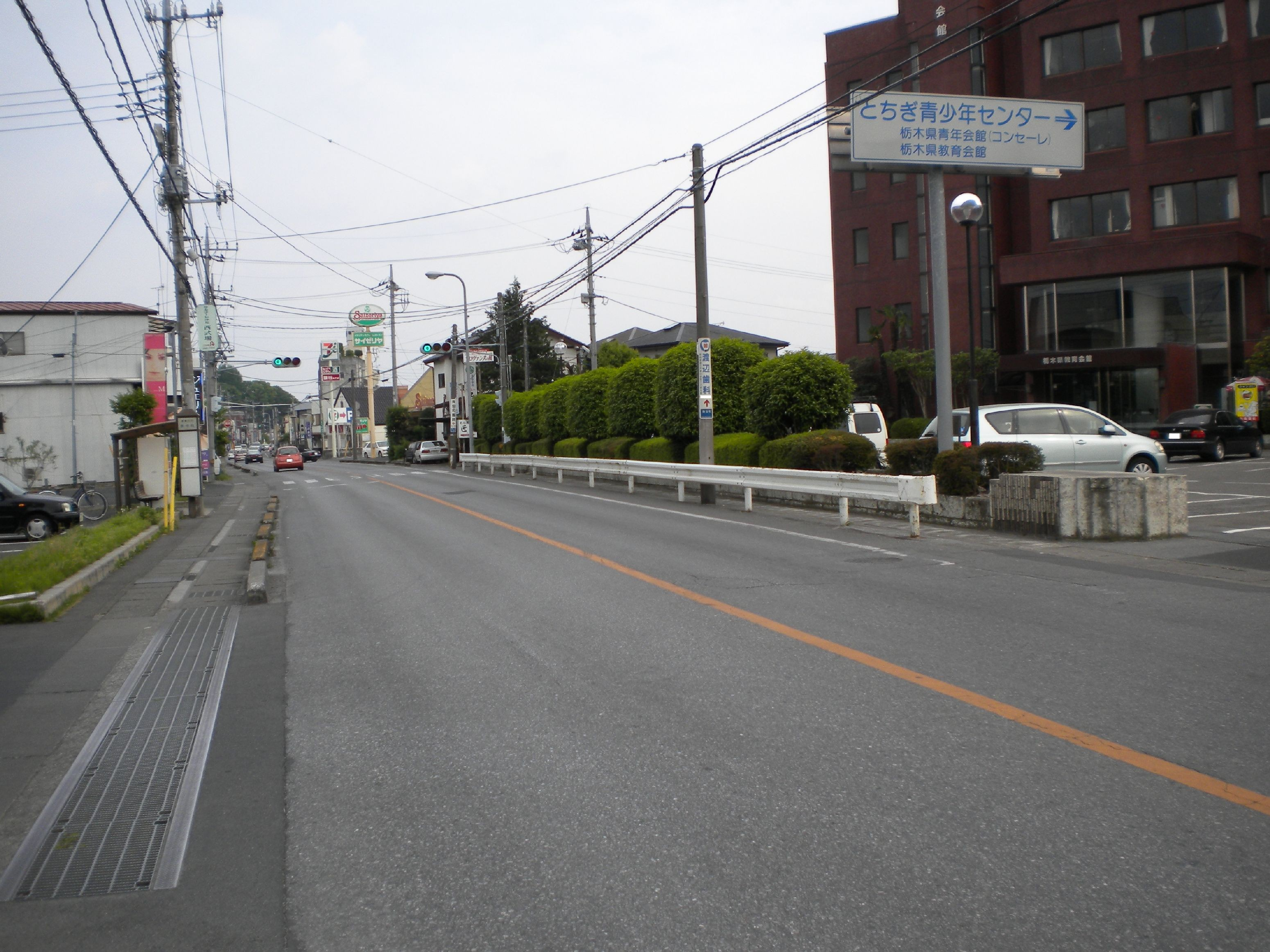 The Tochigi Prefectural Road Route 70 in Takaragicho 1-chome, Utsunomiya City